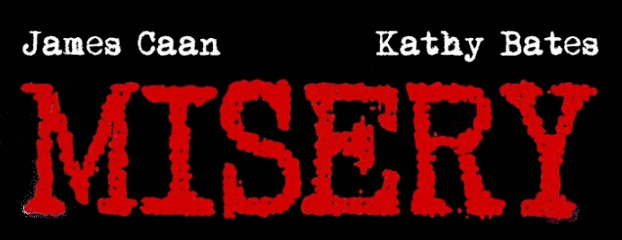 Official logo of the Movie Misery